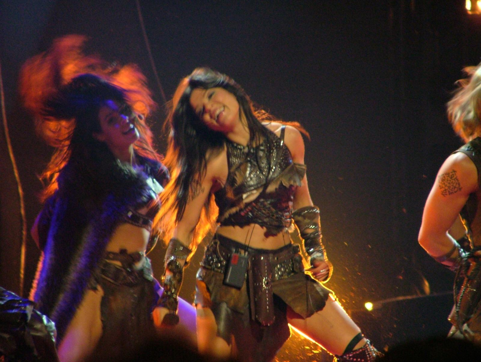 Ukrainian entry Ruslana rehearsing her entry "Wild Dances" at the rehearsals of the Eurovision Song Contest 2004 semi-final.